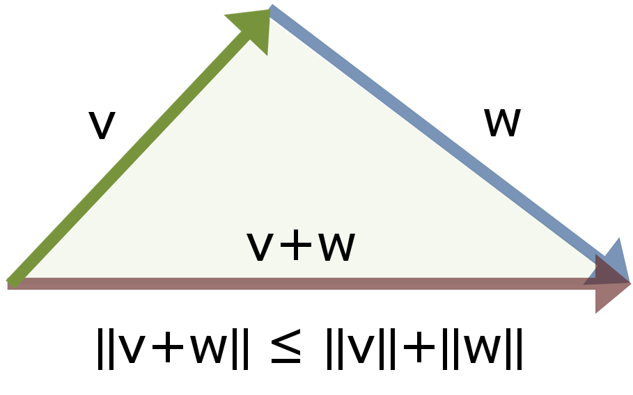 Vector sum and inequality for norms